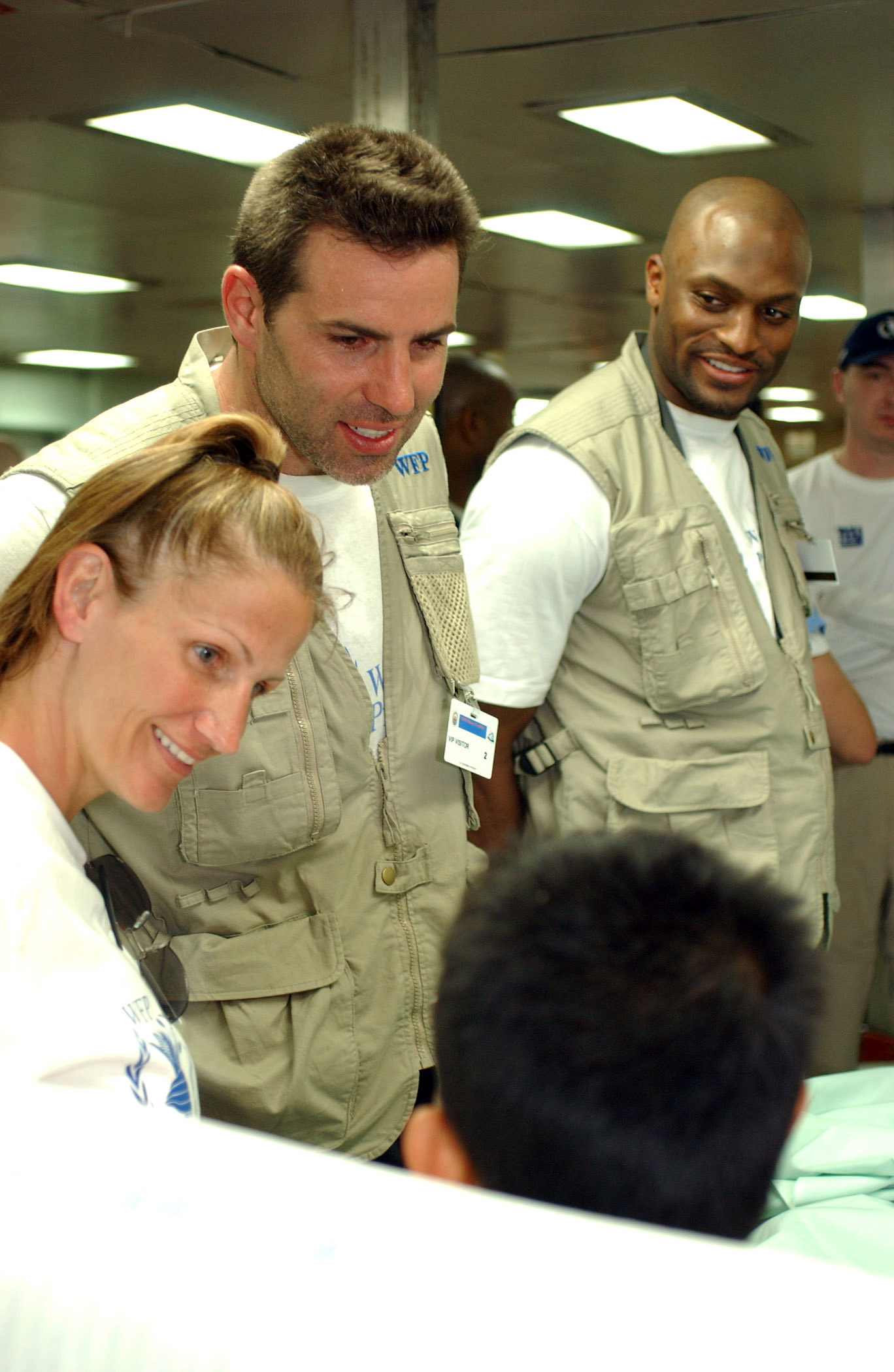 Brenda Warner, left, and her husband, New York Giants quarterback Kurt Warner, middle, and New York Giants wide receiver Amani Toomer, talk to an injured Indonesian boy aboard the Military Sealift Command (MSC) hospital ship USNS Mercy (T-AH 19). The two football stars came aboard Mercy to visit patients and talk with the crew of Sailors and “Project Hope” volunteers providing humanitarian assistance and disaster relief as part of Operation Unified Assistance. Mercy is currently off the waters of Indonesia in support of Operation Unified Assistance, the humanitarian relief effort to aid the victims of the tsunami that struck Southeast Asia.